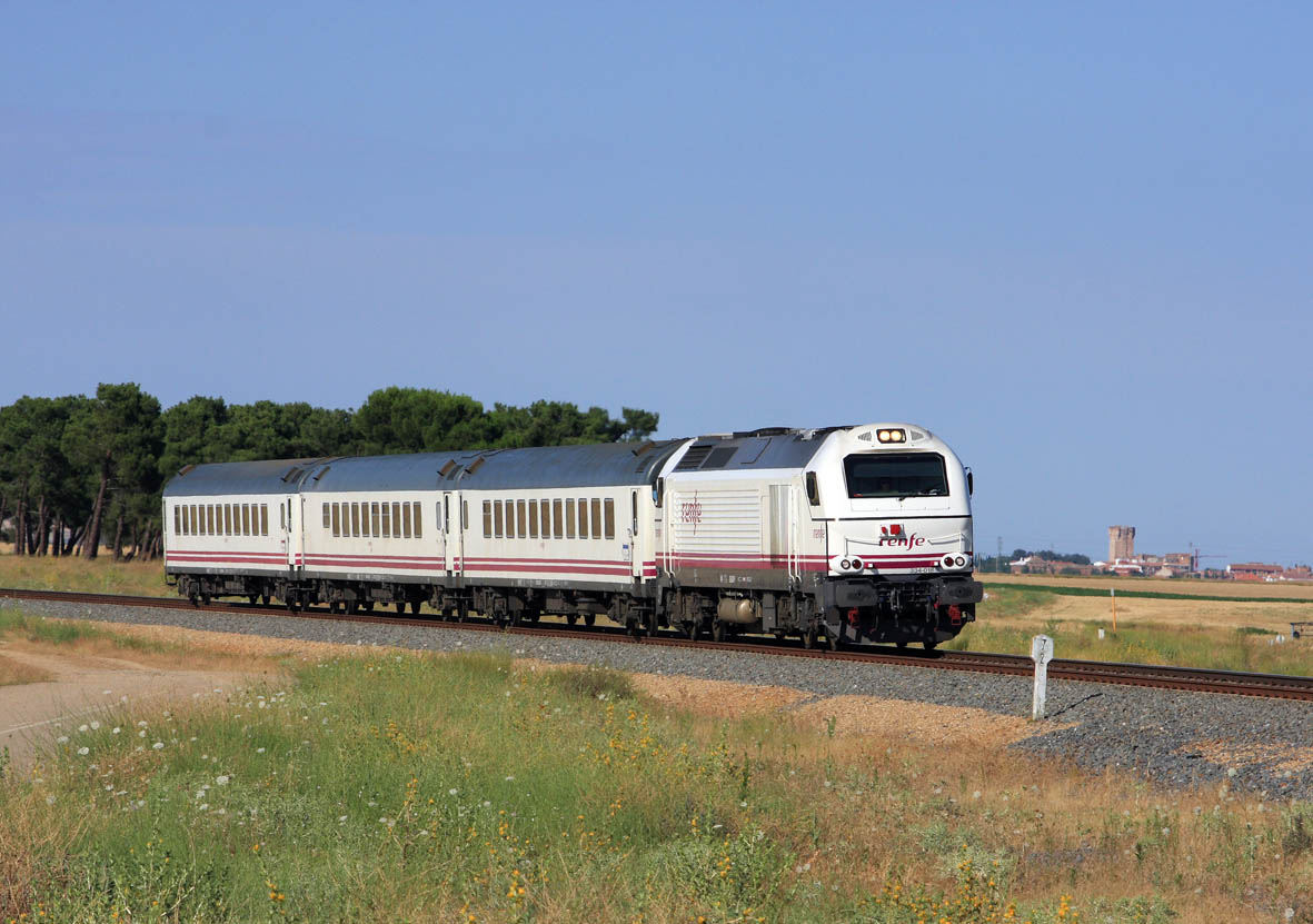 Locomotive 334 with Renfe 9000 coaches. Iberia day train (Basque Country - Salamanca) in El Campillo in July 2008.